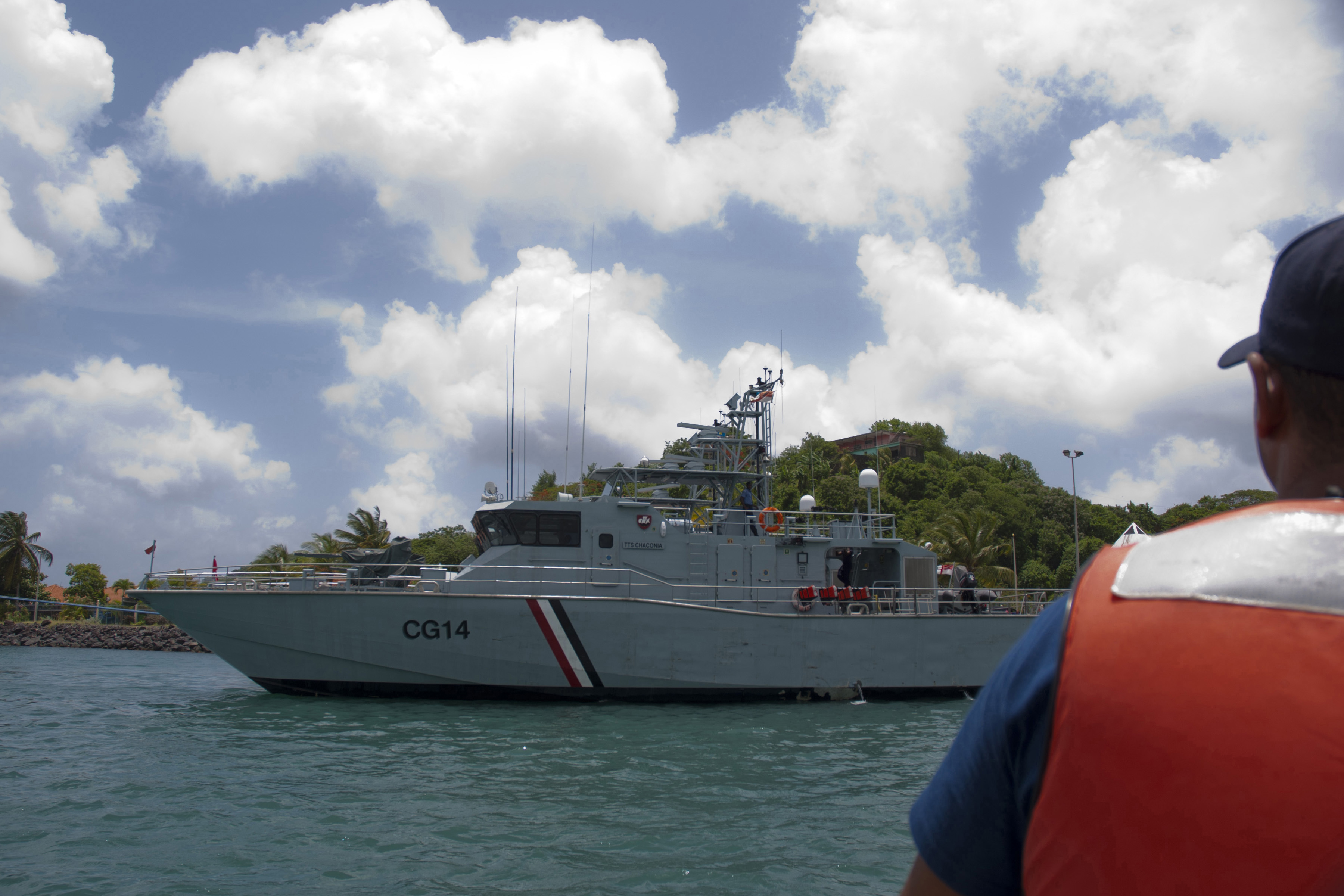 A U.S. Coast Guardsman stands on the bow of an approaching police boat as he and crewman from five other partner nations prepare to conduct a drug interdiction simulation as part of Tradewinds 2013 May 29, 2013, aboard the Trinidad and Tobago fast patrol craft TTS Chaconia (CG14) in Castries, St. Lucia. Tradewinds is a chairman of the Joint Chiefs of Staff-directed, U.S. Southern Command-sponsored joint/combined annual exercise designed to improve cooperation and interoperability of partner nations in responding to regional security threats.